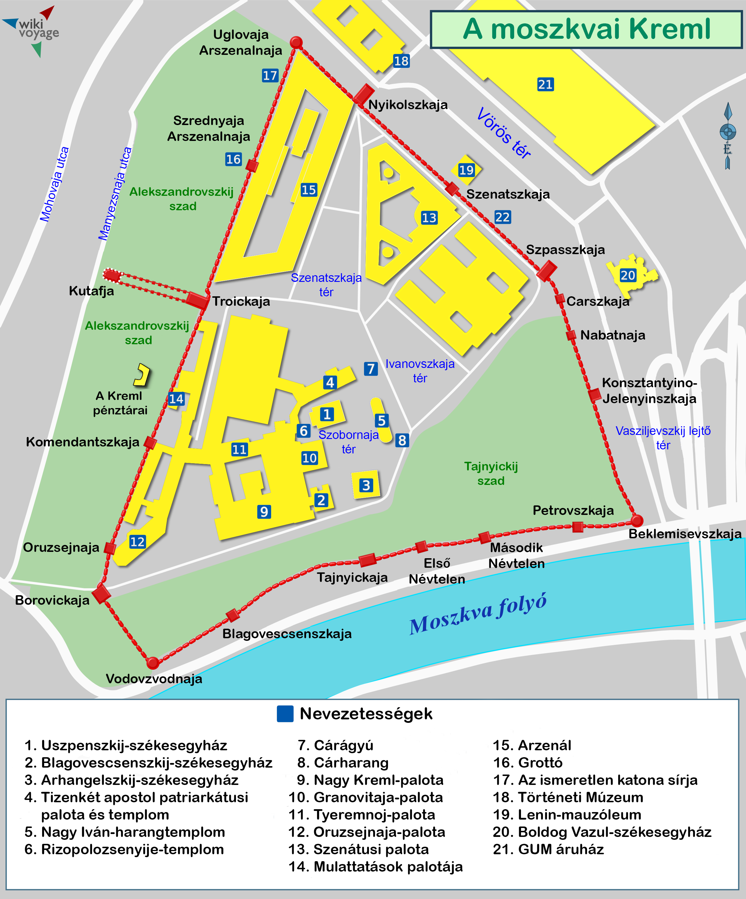 Draft_map_of_the_Moscow_Kremlin_in_Hungarian